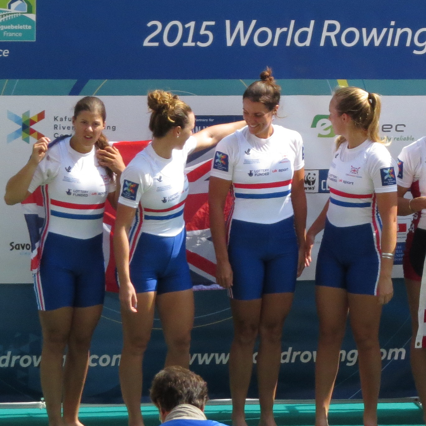 Podium 2015 Coxless 4 GBR : Rebecca Chin, Karen Bennett, GOODERHAM, Lucinda and NORTON, Holly